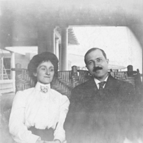 Miss Sarah Byrd Askew and Mr. Henry Eduard Legler in Atlantic City, New Jersey by FW Faxon